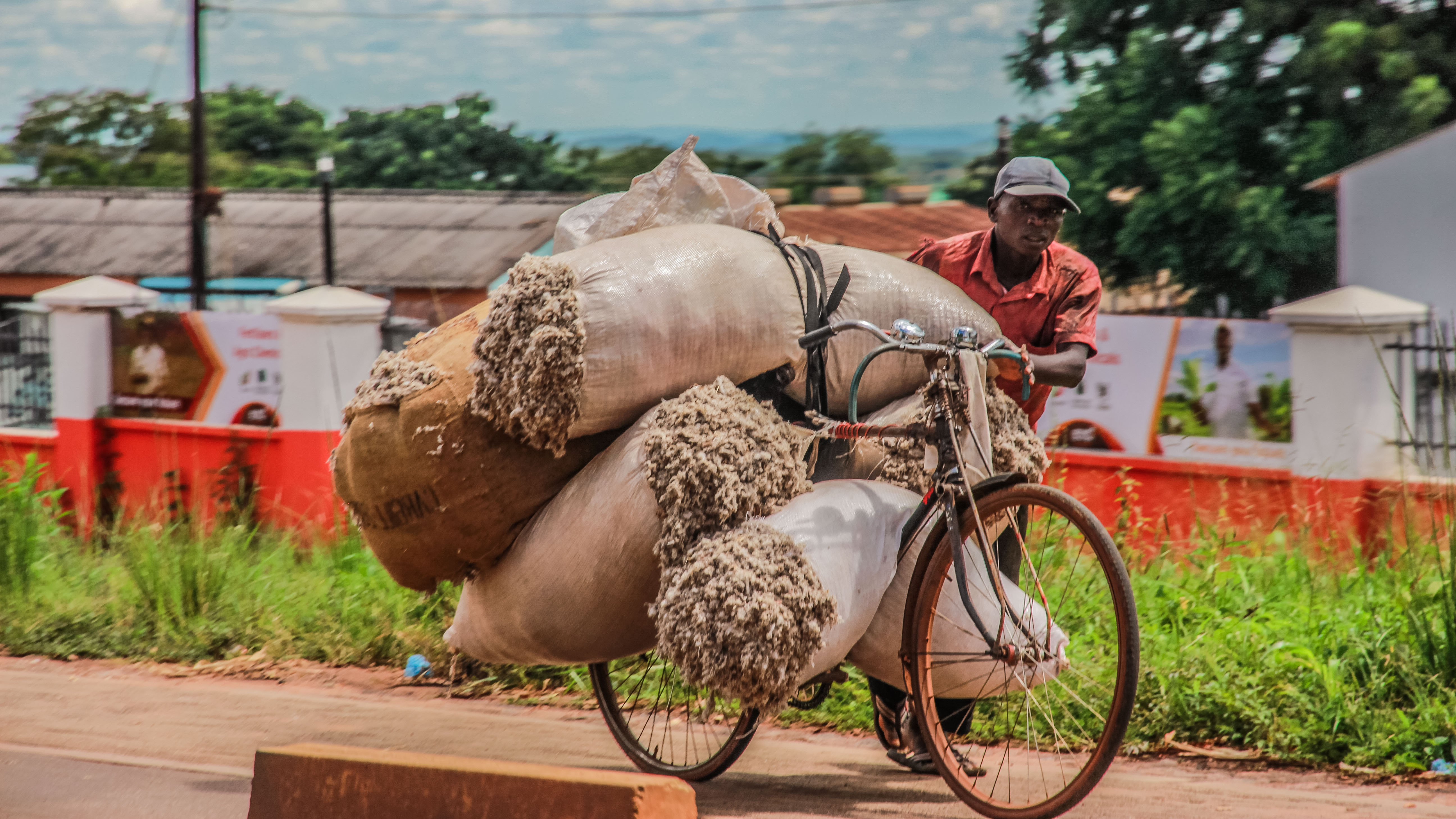 Bicyle being used to transport cotton along the Chipata Mfuwe road in Eastern province, Zambia This is an image with the theme "Africa on the Move or Transport" from: Zambia